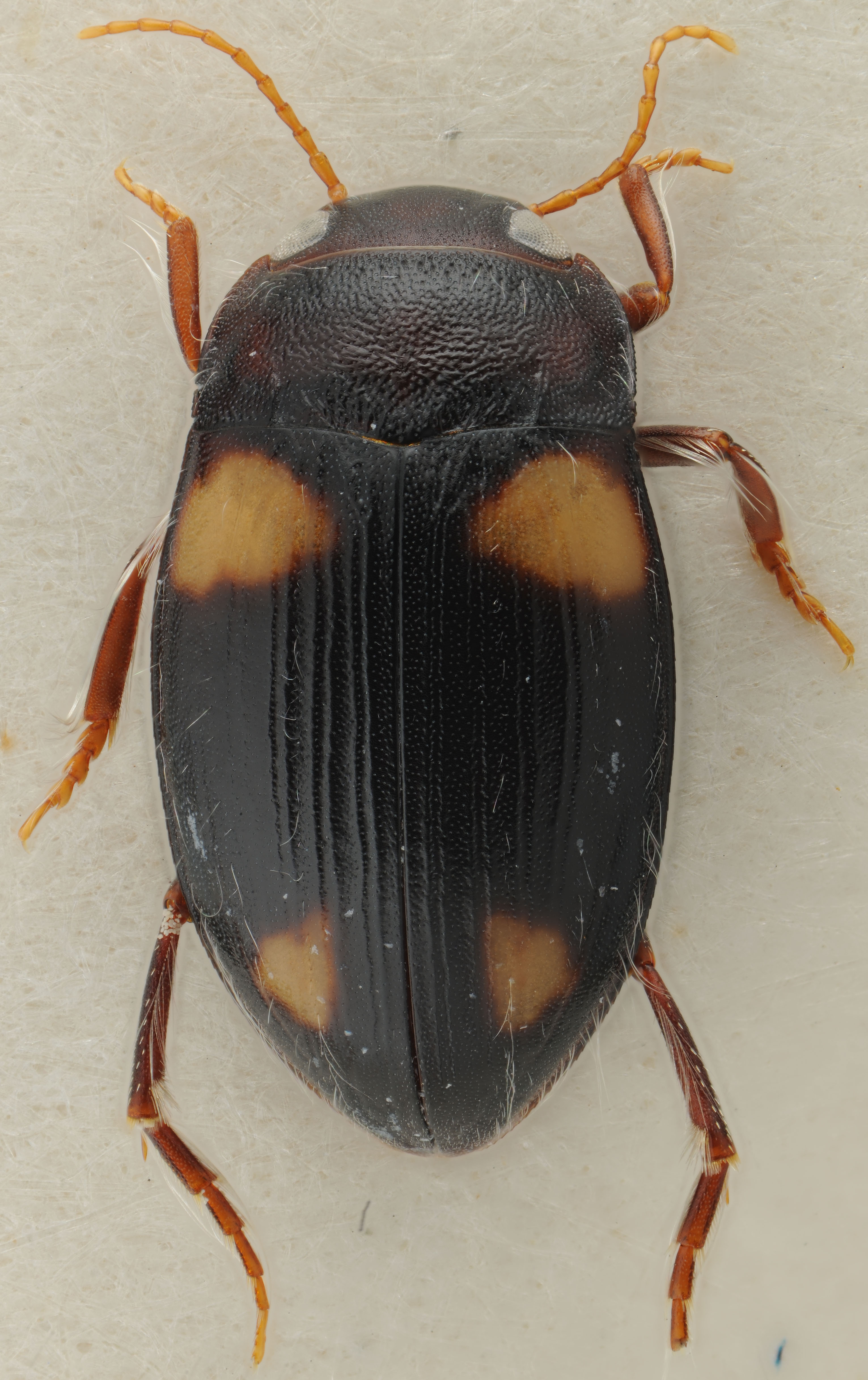 Dorsal habitus of Barretthydrus tibialis